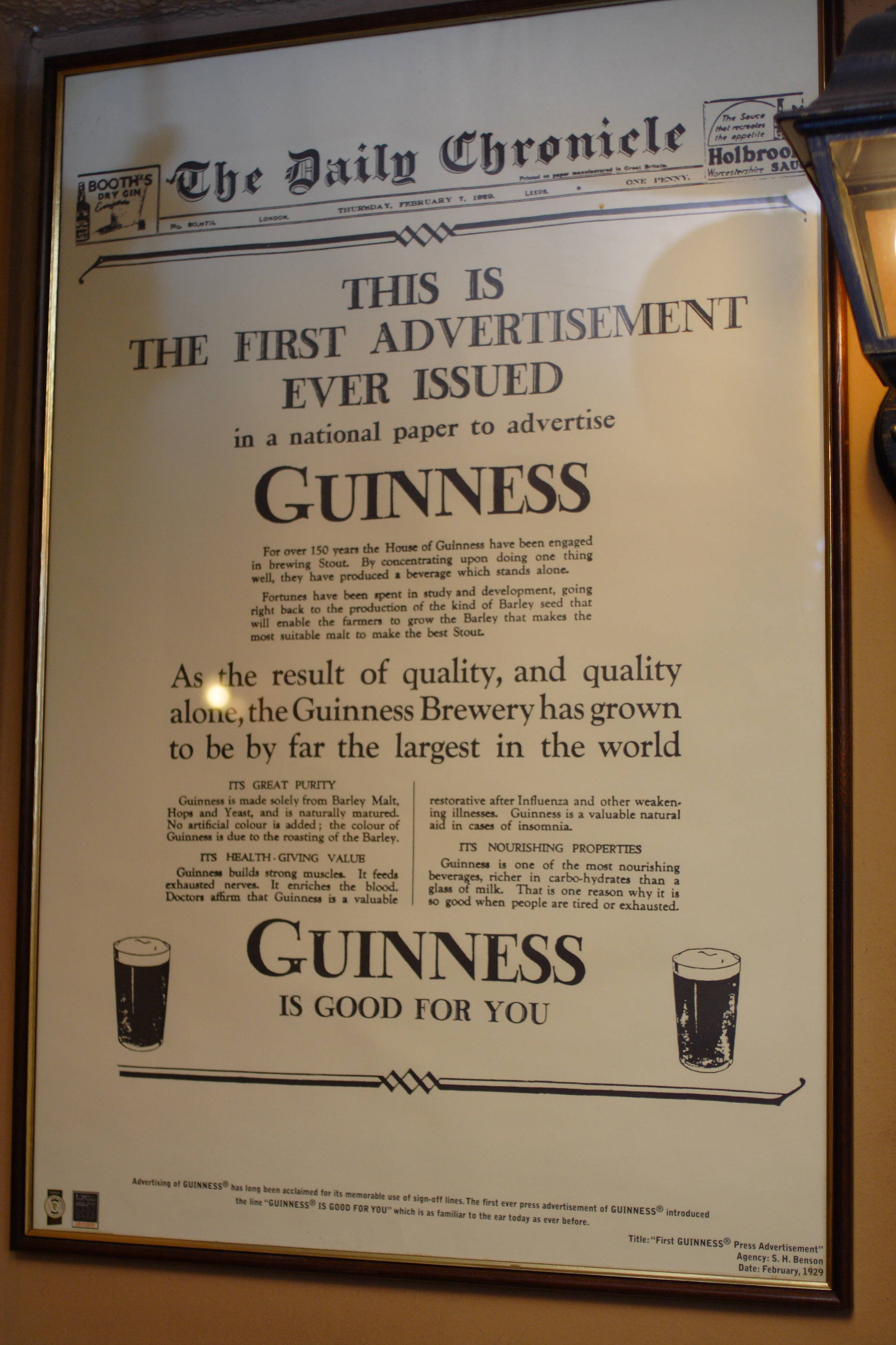 Guinness first advertisement in pub. Warsaw, Poland.